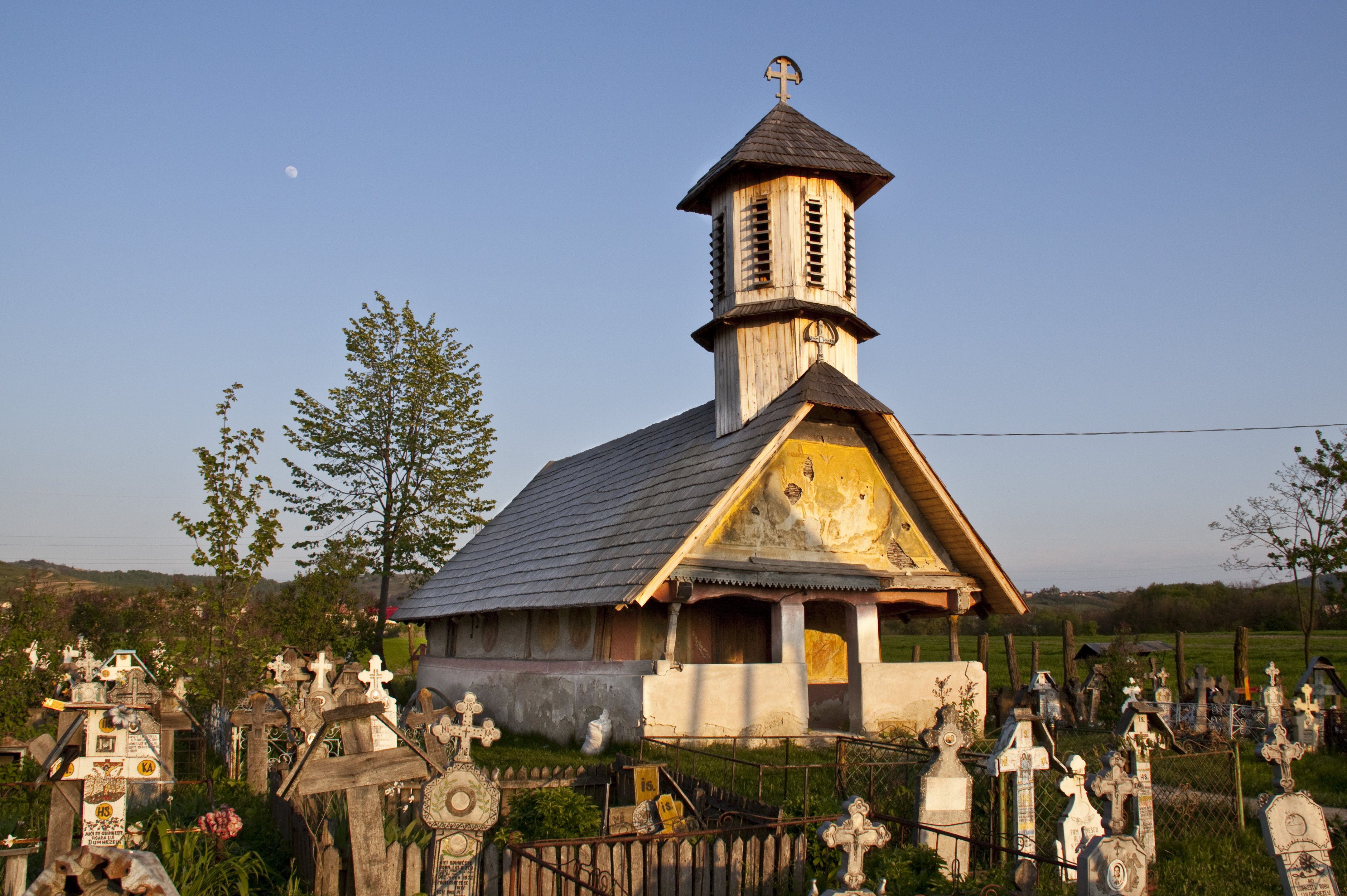 Târgu Gânguleşti, Vâlcea county, Romania: the wooden chuech.